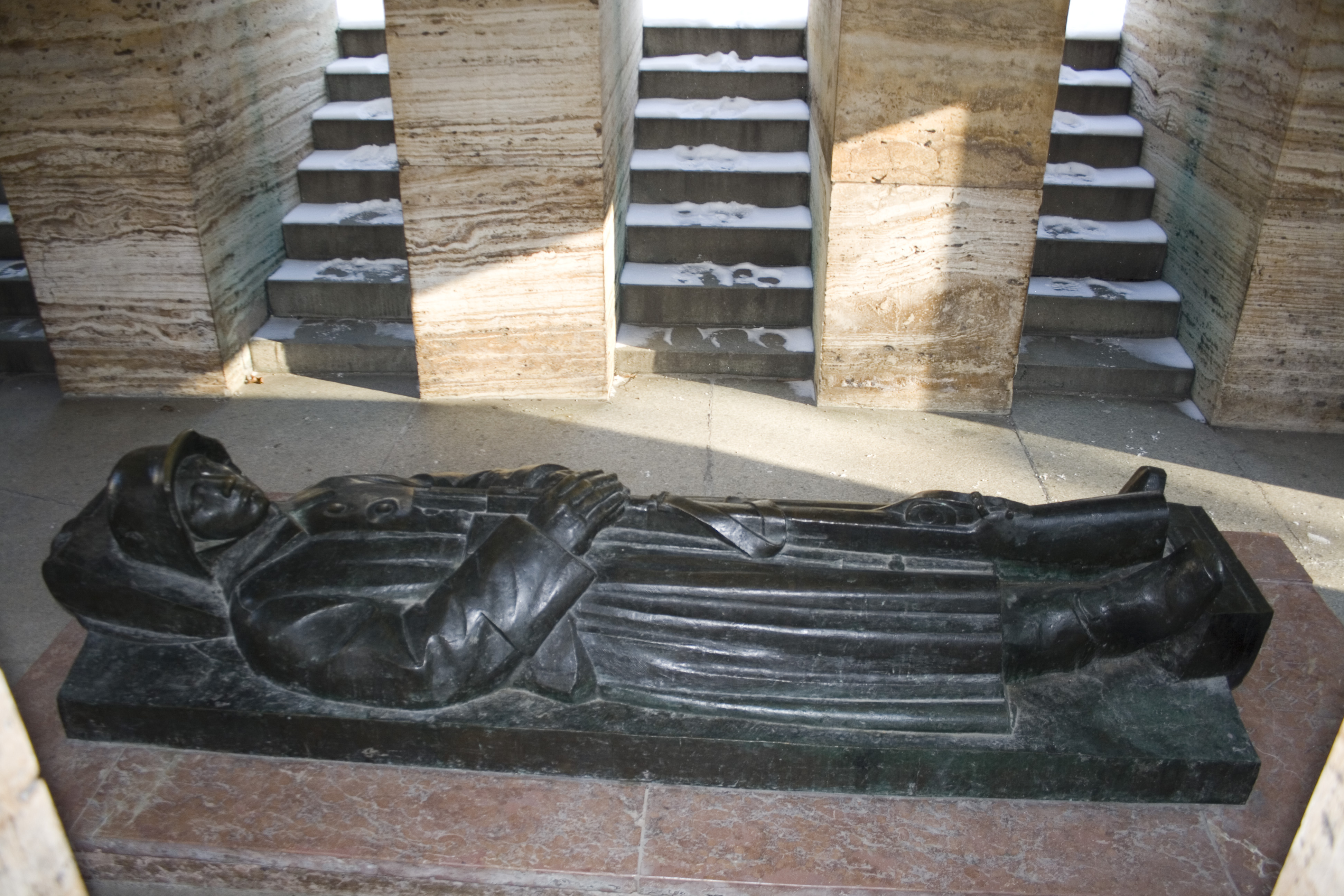 Monument in honor to the warriors in the Courtyard Garden, Munich, Germany